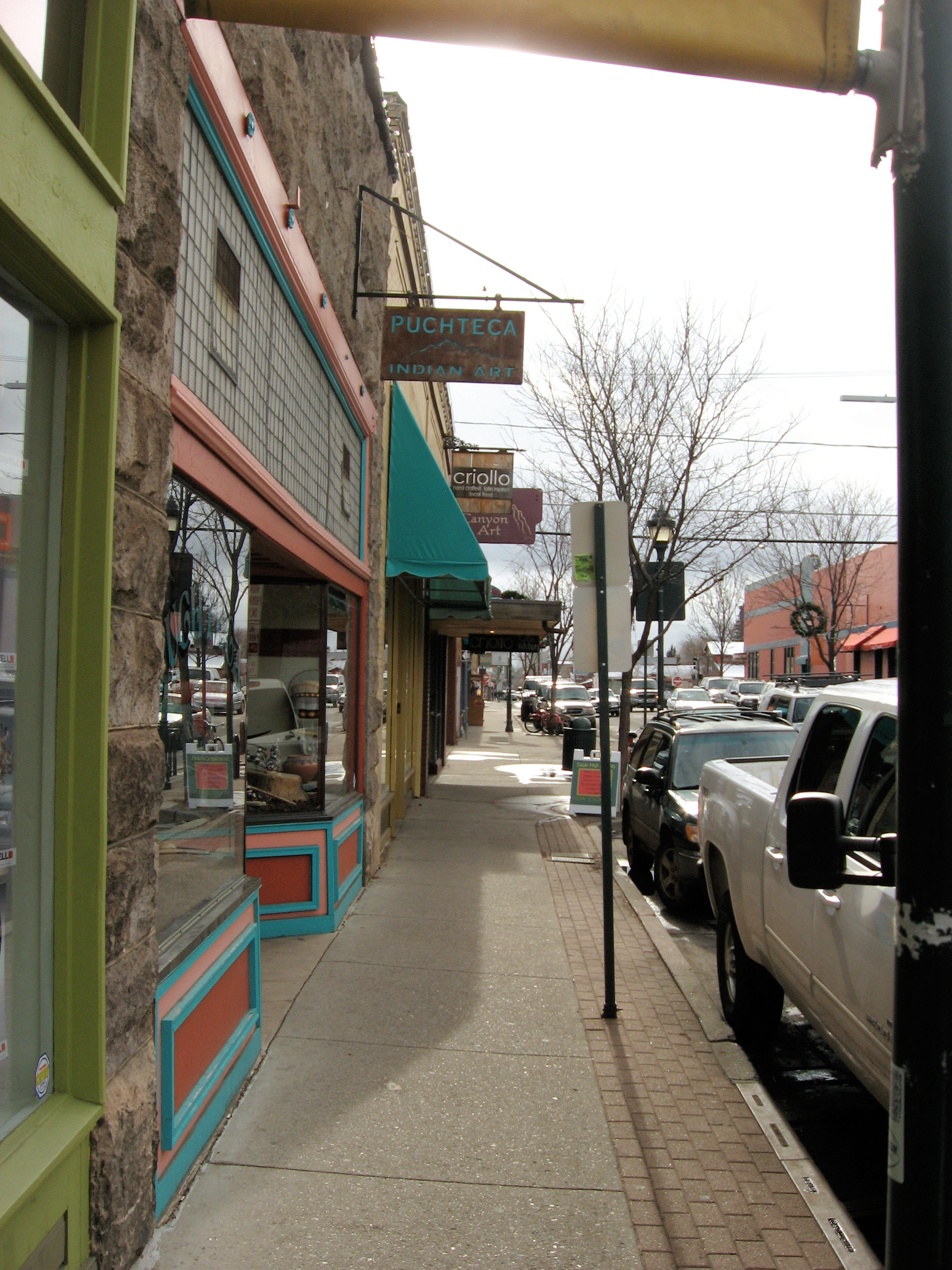 Flagstaff is a city located in northern Arizona, in the southwestern United States. In 2008, the city's estimated population was 60,222. The population of the Metropolitan Statistical Area was estimated at 127,450 in 2007. It is the county seat of Coconino County. The city is named after a Ponderosa Pine flagpole made by a scouting party from Boston (known as the "Second Boston Party") to celebrate the United States Centennial on July 4, 1876. Flagstaff lies near the southwestern edge of the Colorado Plateau, along the western side of the largest contiguous Ponderosa Pine forest in the continental United States. Flagstaff is located adjacent to Mount Elden, just south of the San Francisco Peaks, the highest mountain range in the state of Arizona. Humphreys Peak, the highest point in Arizona at 12,633 feet (3,850 m), is located about 10 miles (16 km) north of Flagstaff in Kachina Peaks Wilderness. Flagstaff's early economy was based on the lumber, railroad, and ranching industries. Today, the city remains an important distribution hub for companies such as Nestlé Purina PetCare and Walgreens, and is home to Lowell Observatory, The U.S. Naval Observatory, the United States Geological Survey Flagstaff Station and Northern Arizona University. Flagstaff has a strong tourism sector, due to its proximity to Grand Canyon National Park, Oak Creek Canyon, the Arizona Snowbowl, Meteor Crater and historic Route 66. The city is also home to medical device manufacturing, including such companies as W. L. Gore and Associates.